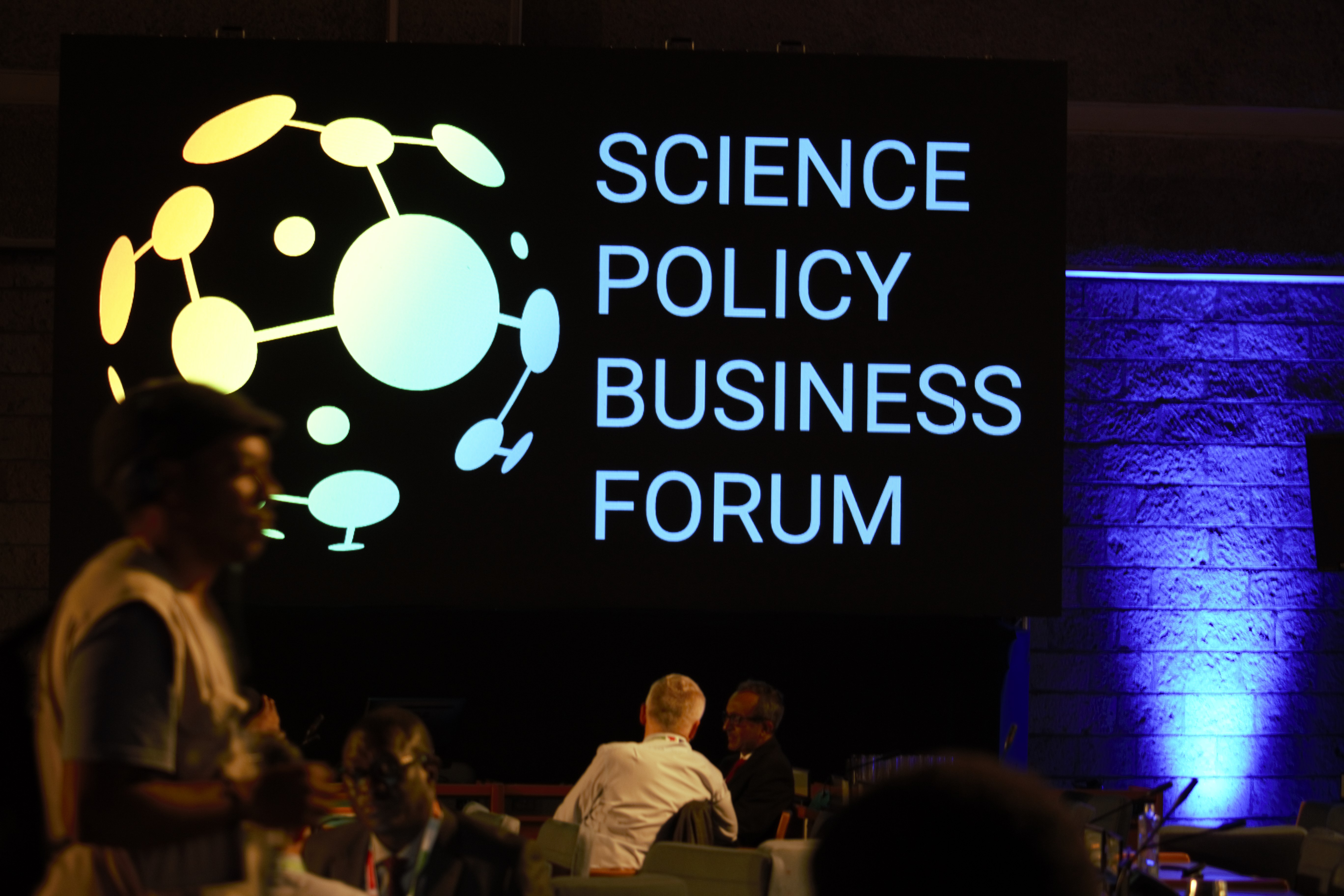 The UN Science-Policy-Business Forum on the Environment session during, the United Nations Environment Assembly Conference in Nairobi, Kenya. The aim of the forum was to identify and promote opportunities to grow green technology markets, driven by advances in science and technology, empowering policies and innovative financing.